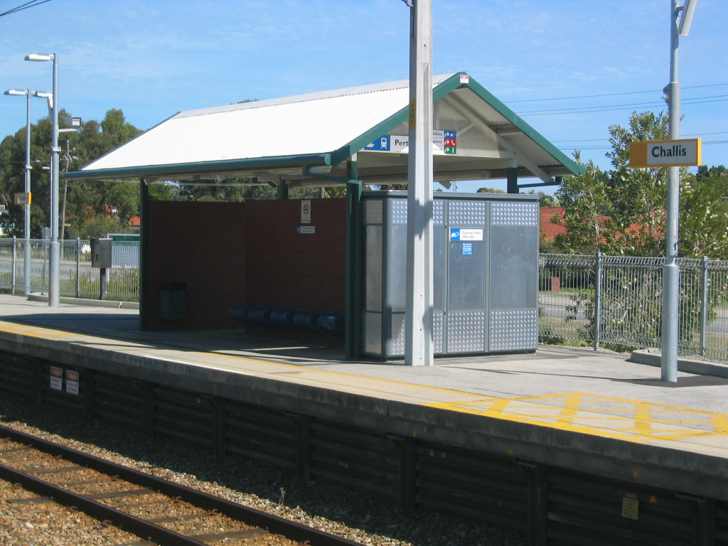 Transperth Challis Train Station